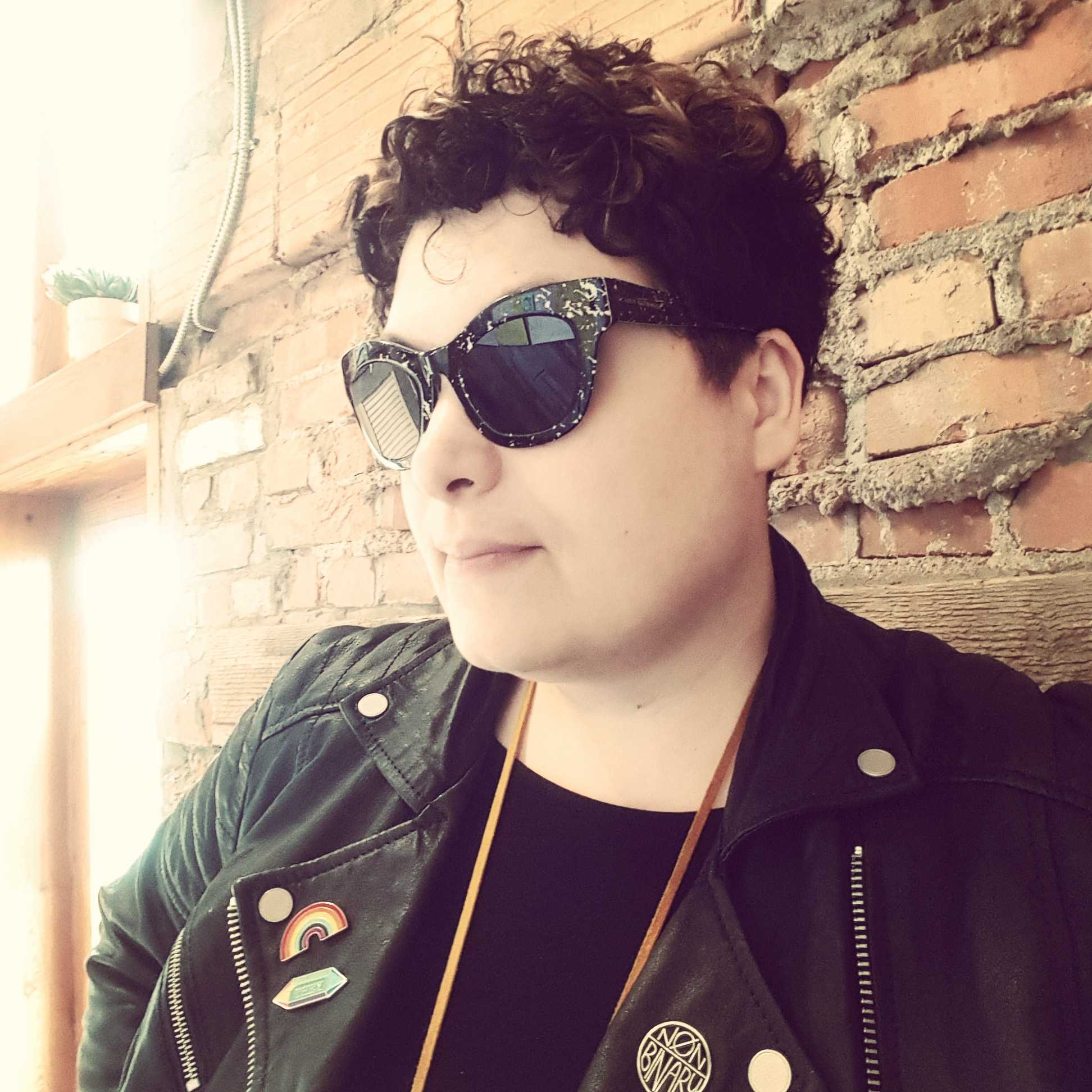 This is the official photo of R. B. Lemberg, academic, poet, and author. R. B., who uses the pronouns they/them/their, was formerly published as Rose Lemberg.